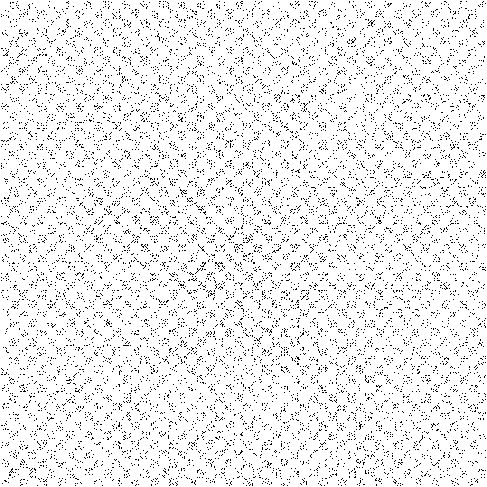 Ulam Spiral from 1 to 3976036.